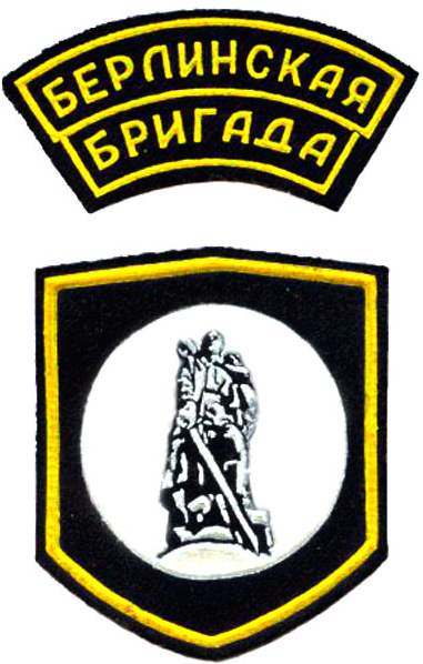 Shoulder Sleeve Insignia of the Russian 6th Guards Motor Rifle Brigade